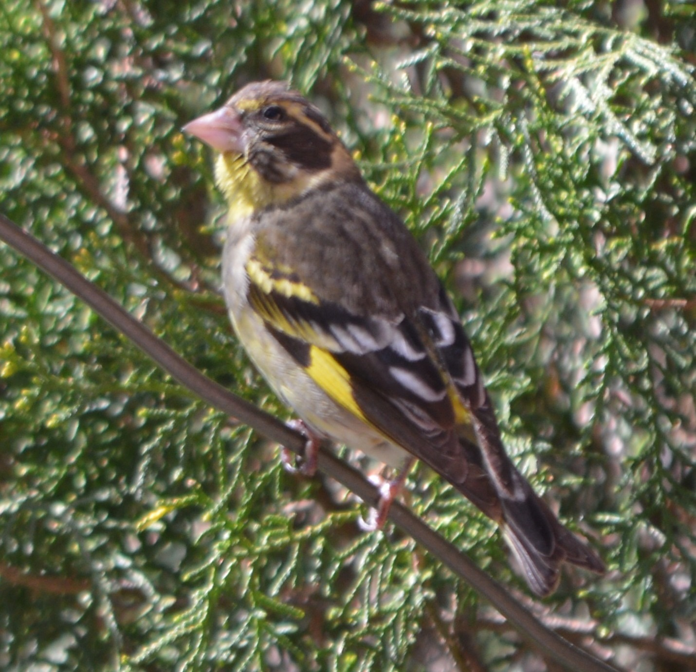 Yellow-breasted Greenfinch Chloris spinoides near Chhaya Cottage, at village Gadaog, Summer Hill, Shimla, Himachal Pradesh, INDIA, photo taken on March 19, 2015 by R. S. Pirta.